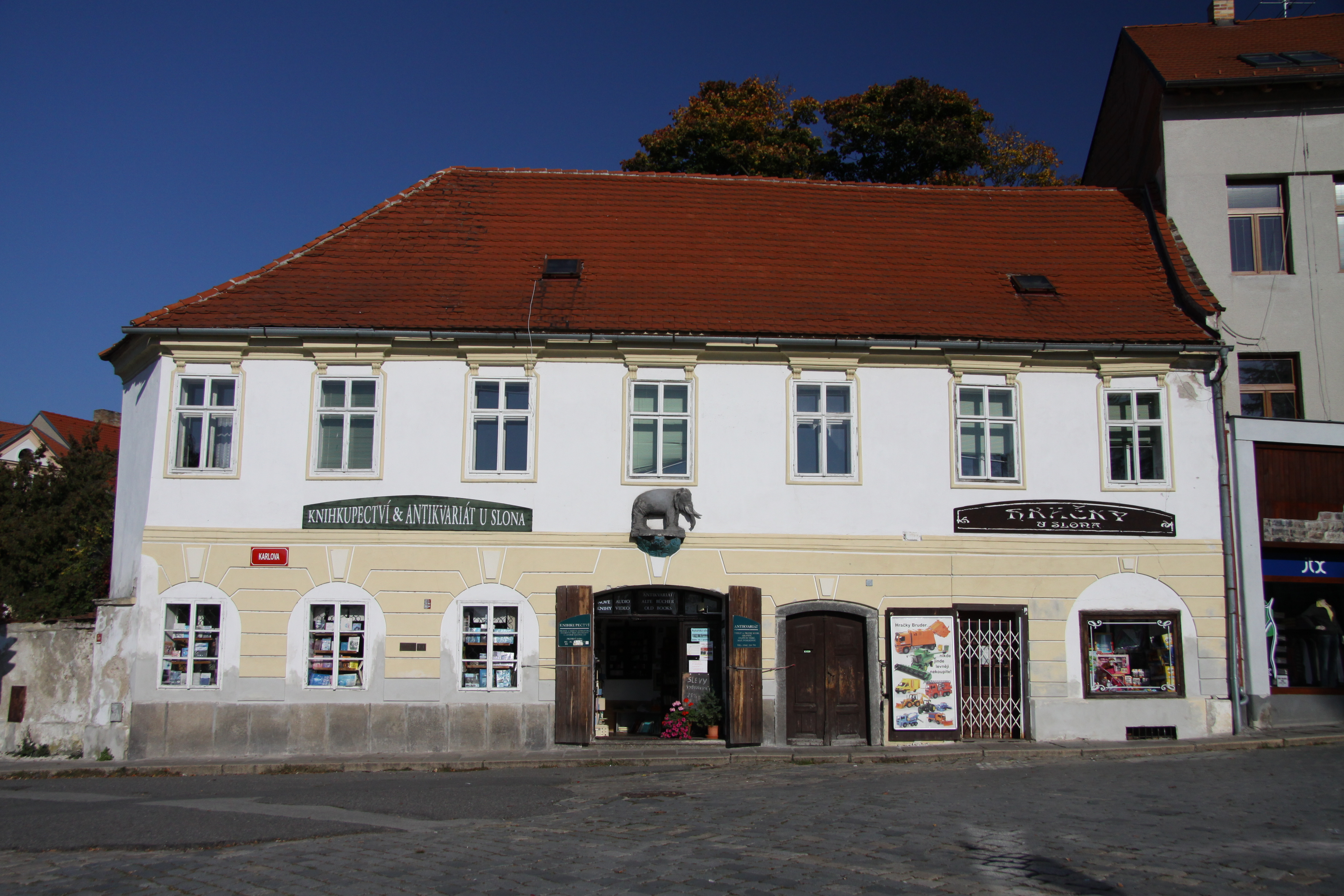 Building "U Slona" in Písek, Písek District, Czech Republic